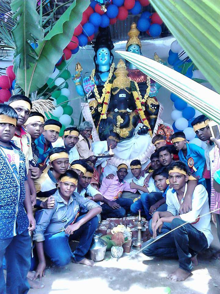 vinayagar chaturthi